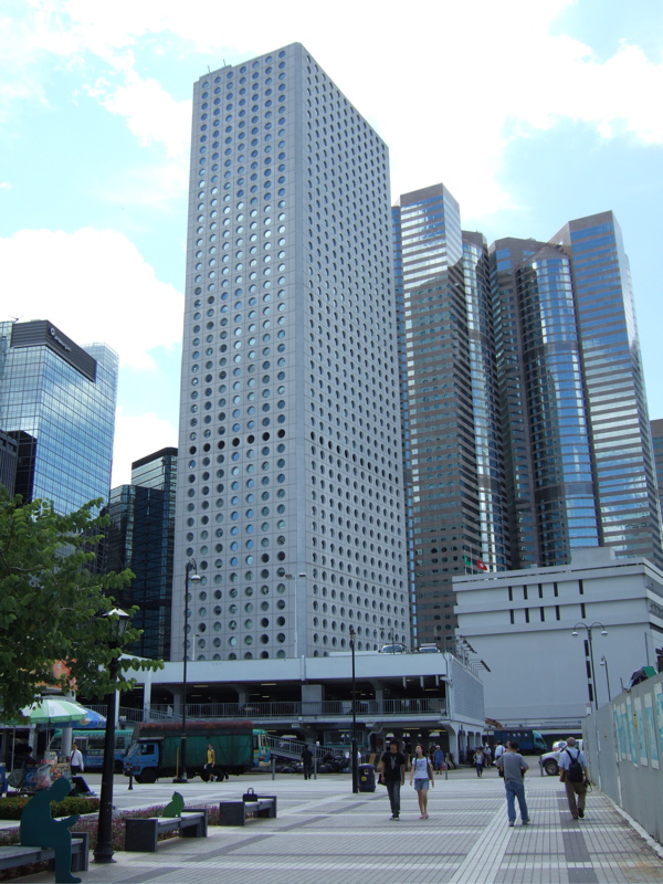 Jardine House, taken from Edinburgh Place